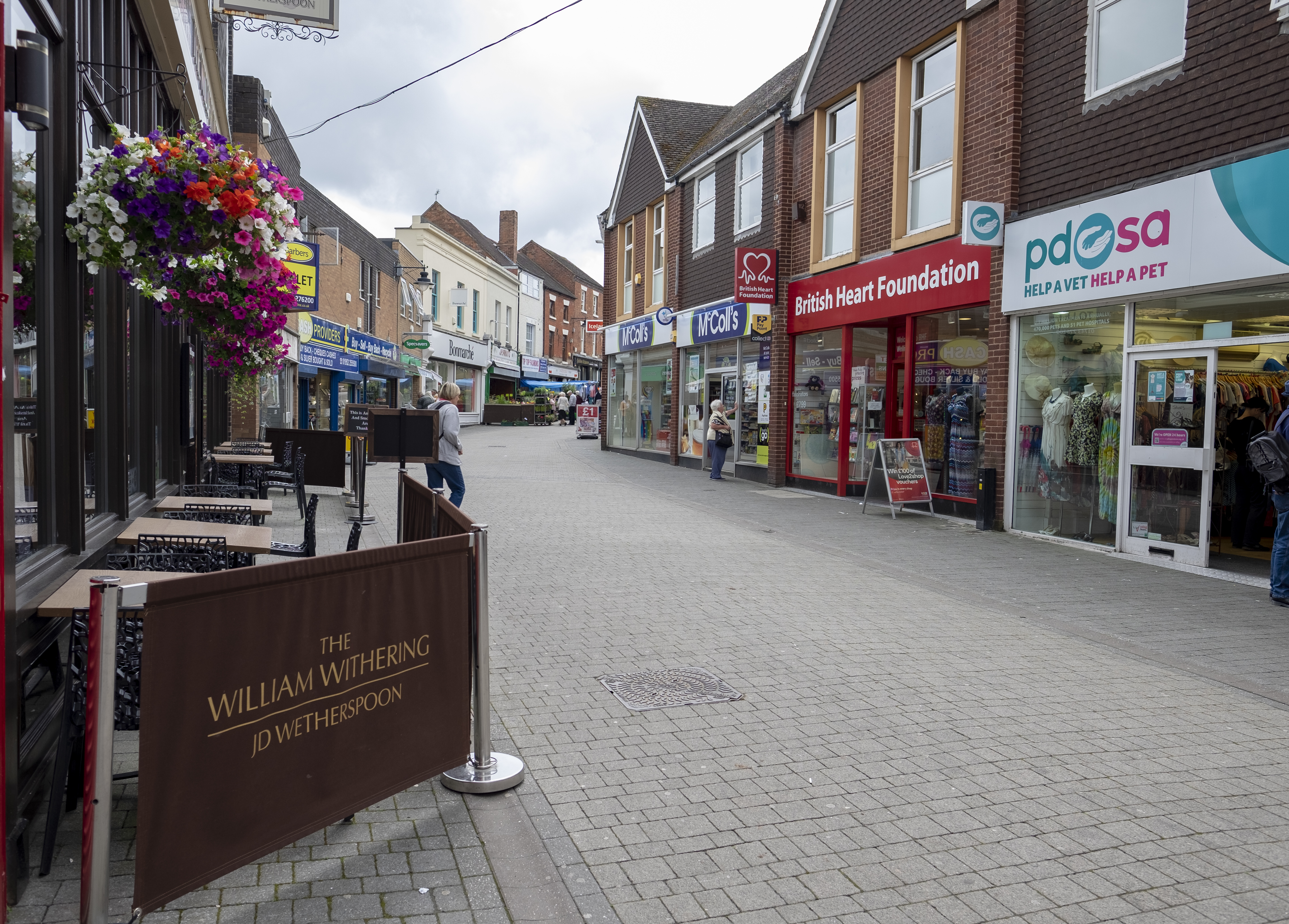 New Street Wellington